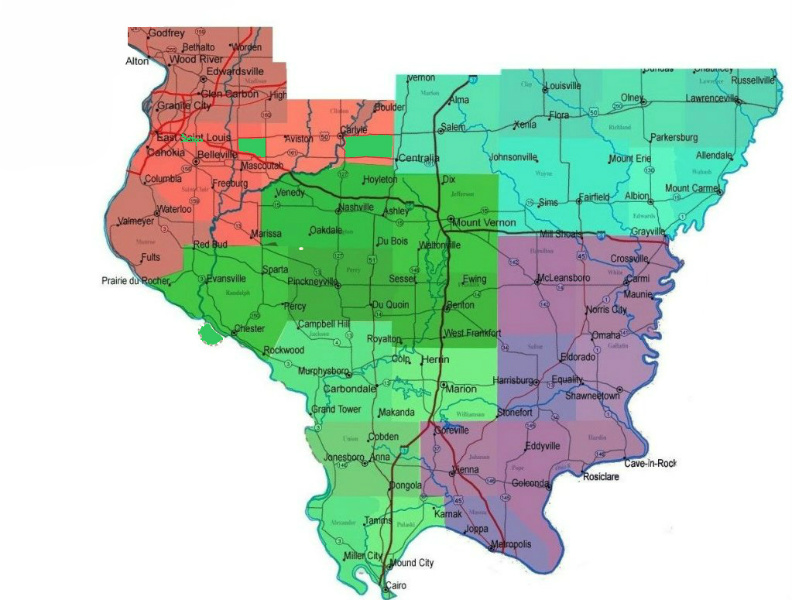 Southern Illinois, aka Little Egypt, modified from File:LittleEgyptSouthernIllinois.jpg to exclude Jersey and Calhoun counties.